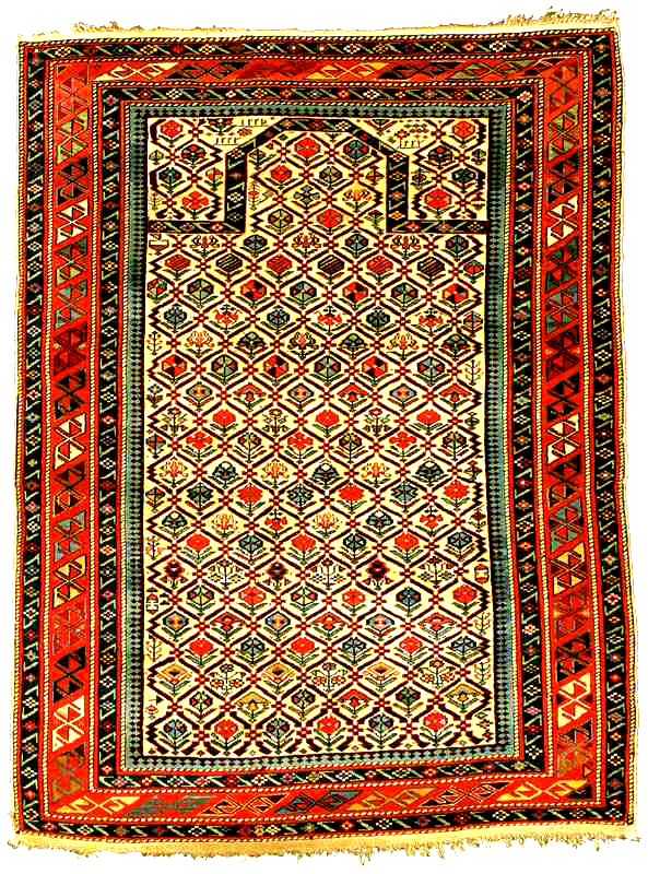 Azerbaijani Shirvan carpet.